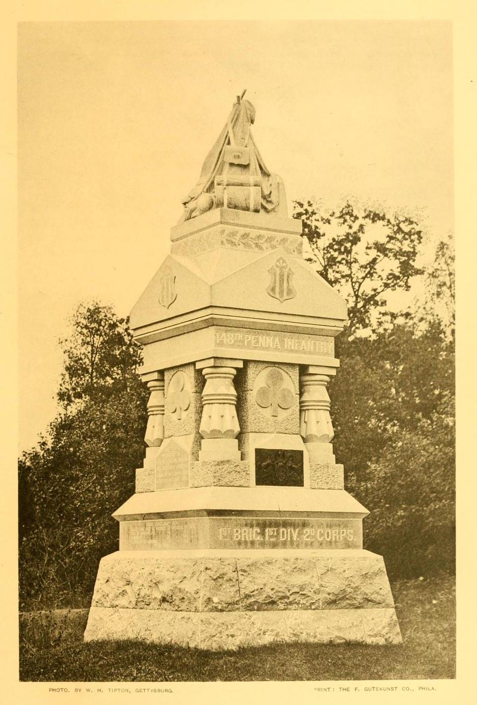 148th Pennsylvania Infantry Monument, Gettysburg Battlefield.